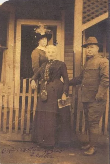 Mother Jones outside her prison in Pratt, West Virginia during her court-martial during the Paint Creek-Cabin Creek strike from 1912-1913.